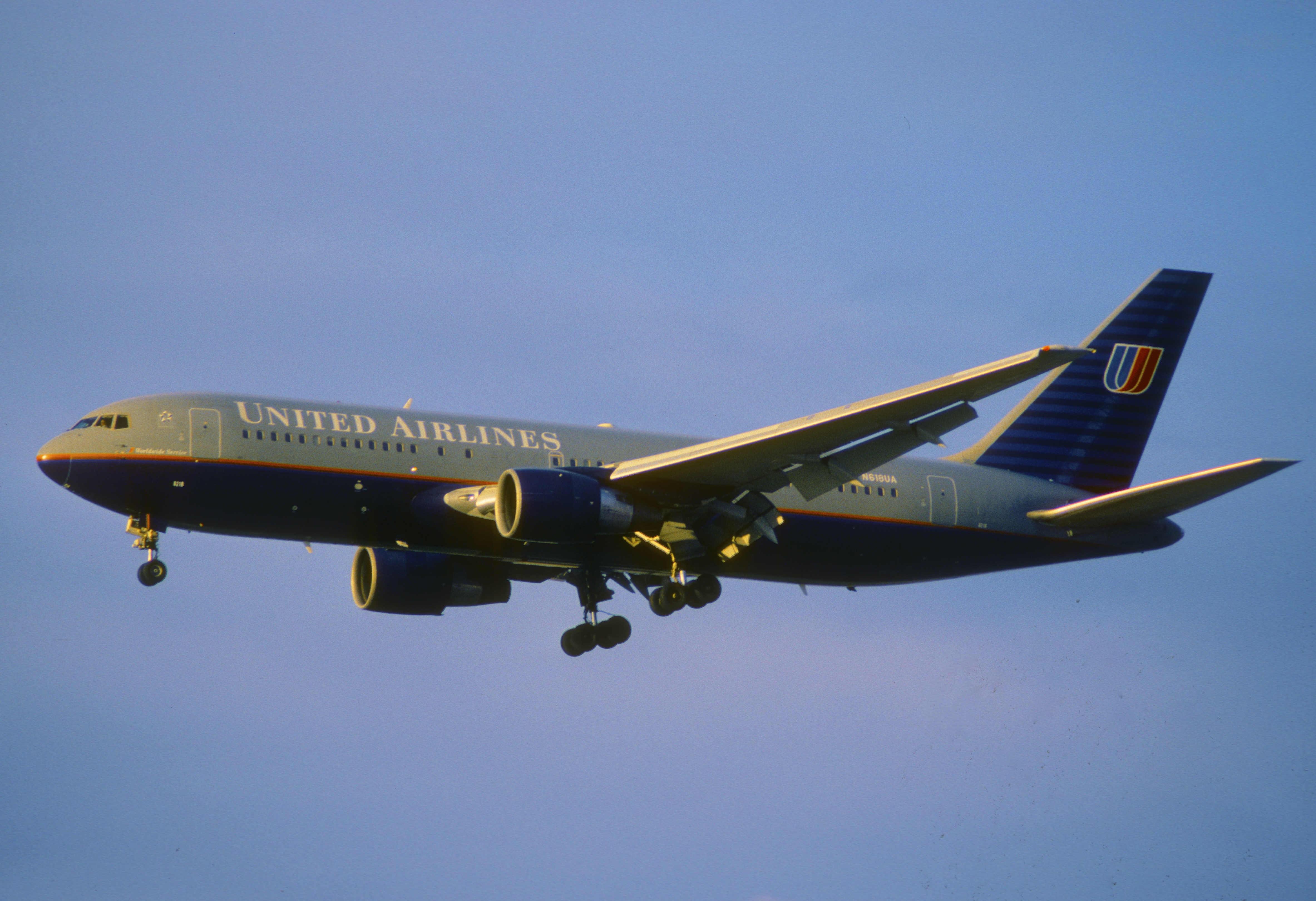 280da - United Airlines Boeing 767-222; N618UA@LAX;02.03.2004